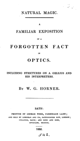 Front page of a Optics book published in 1832 by William George Horner (1786-1837)